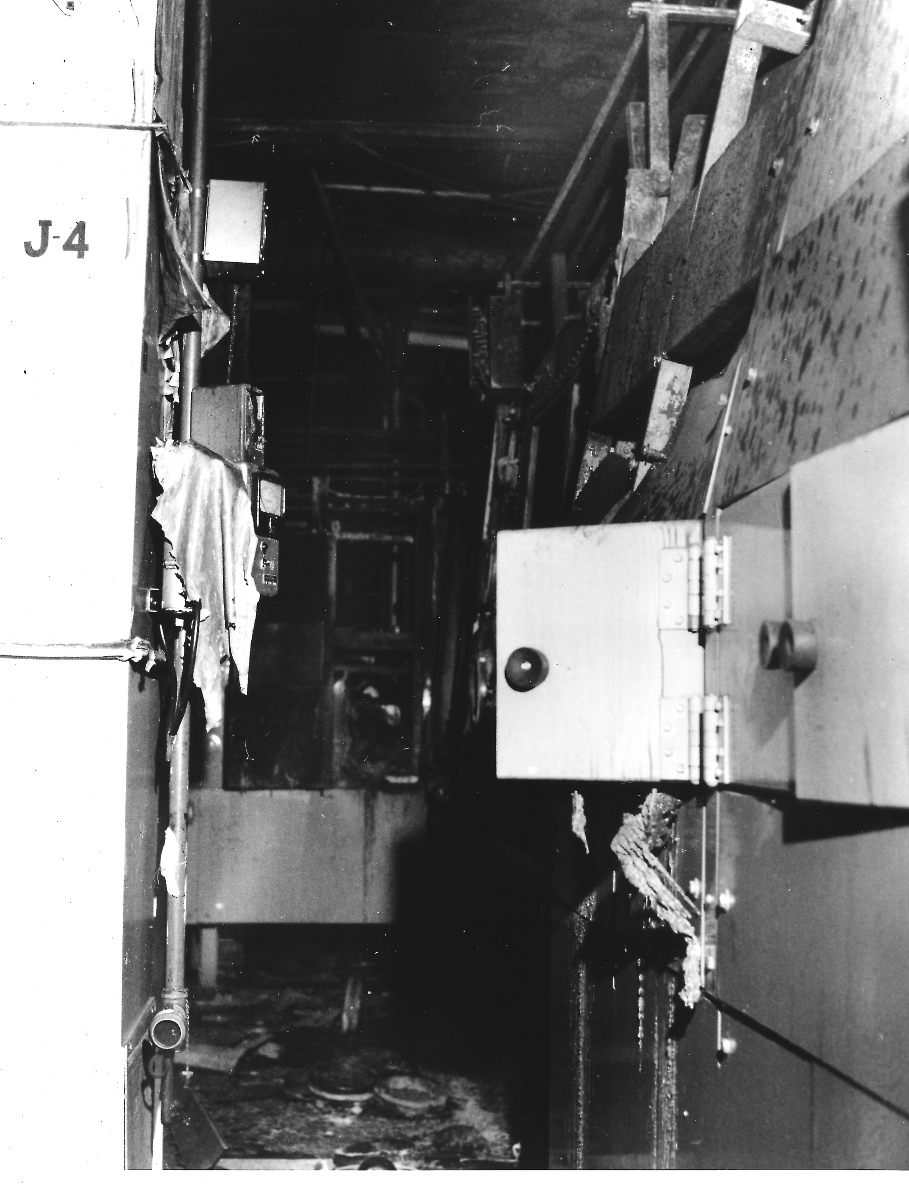 View of area damage from the 1969 plutonium fire at the Rocky Flats Plant.